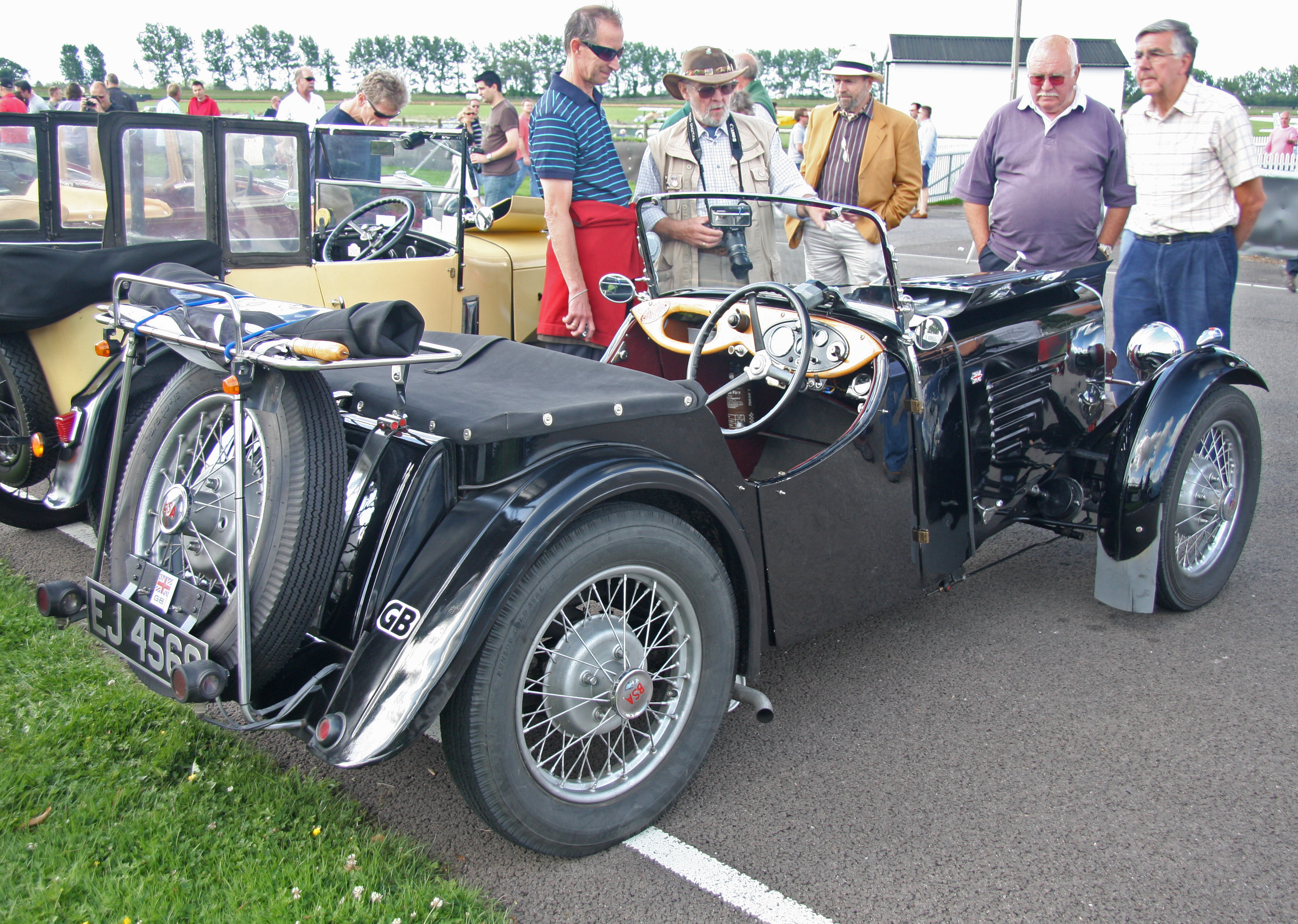 1935 BSA Scout Series I chassis B369 engine A379 reg 8 November 1935 source